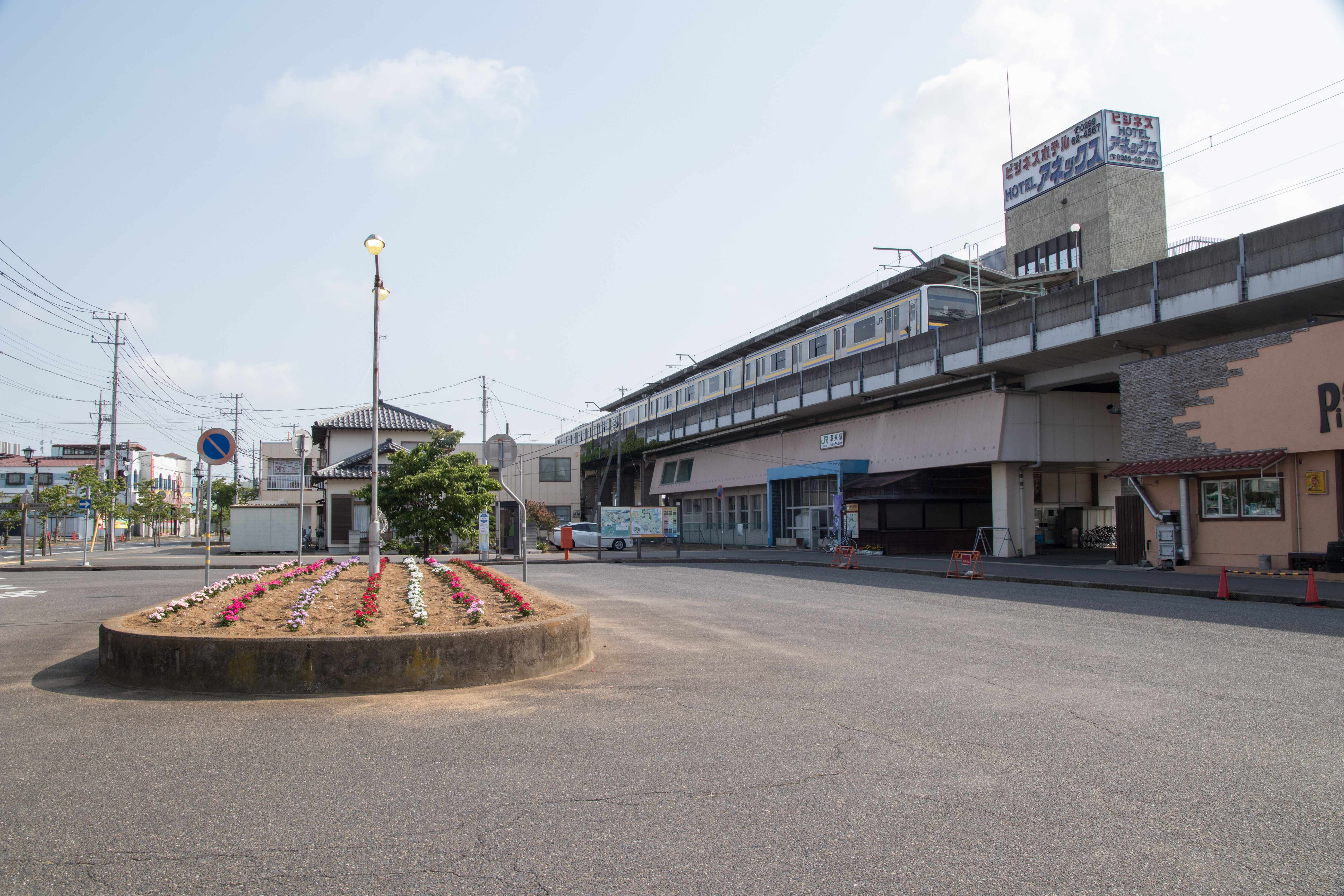 Itako Station in Itako City, Ibaraki Prefecture, Japan Canon EOS 80D + Sigma 17-70mm F2.8-4 DC Macro OS HSM